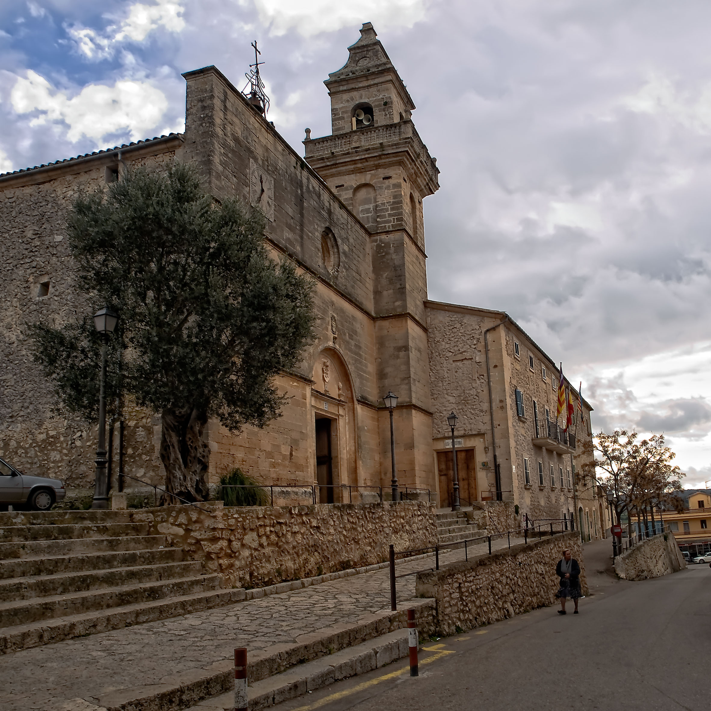 Lloret de Vistaalegre church (Mallorca, Spain)